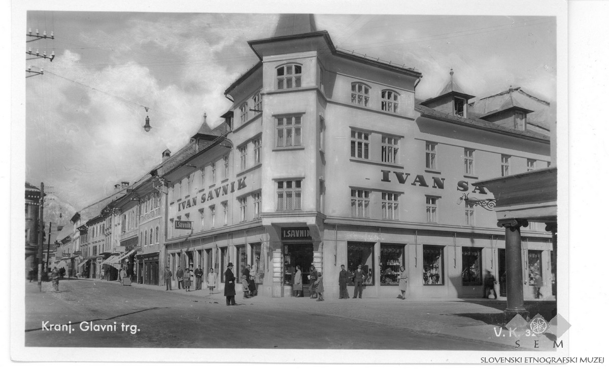 Postcard of Kranj